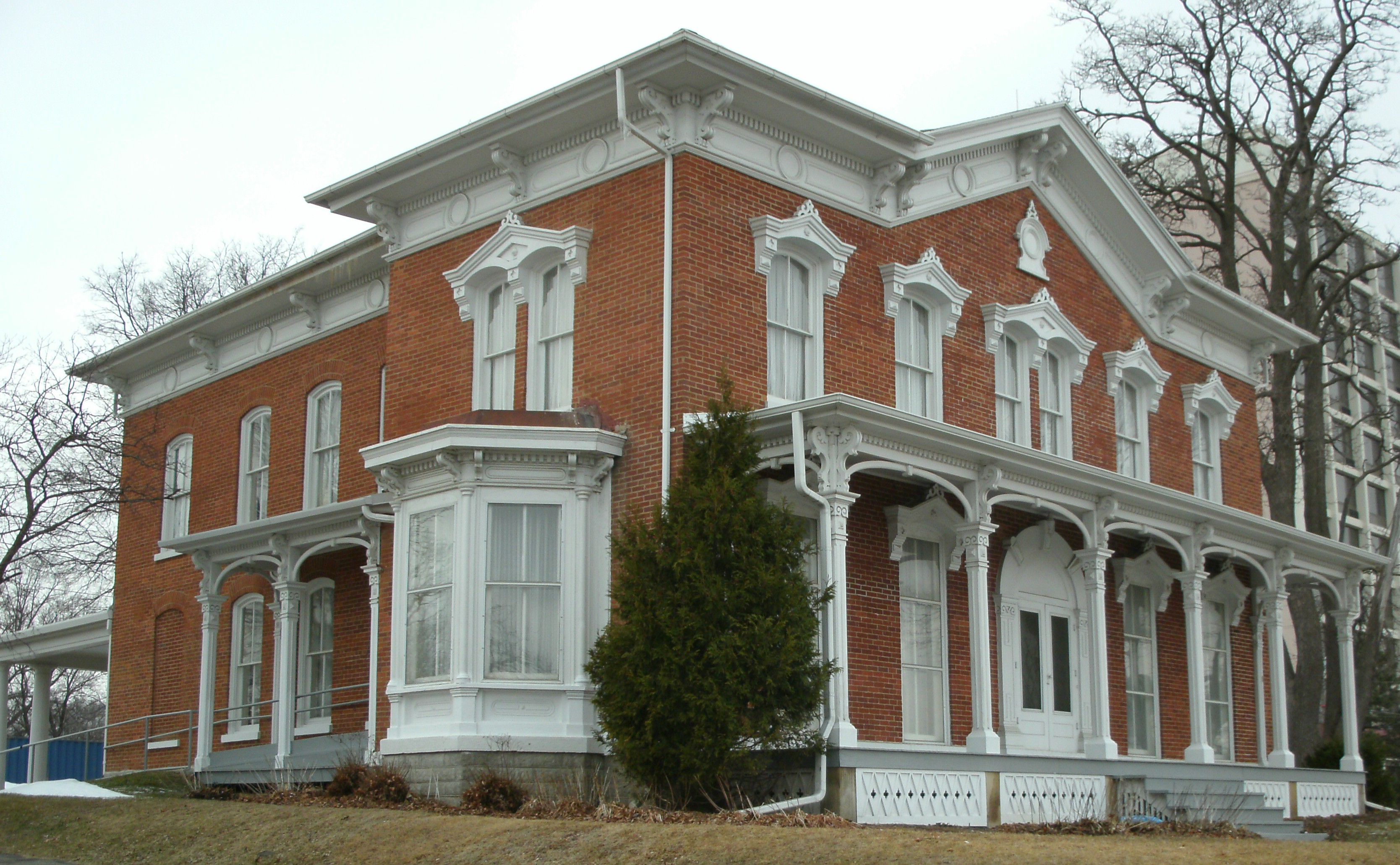 Snowden House located at 306 Washington Street in Waterloo, Black Hawk County, Iowa is on the National Register of Historic Places. Grout Museum District oversees the house as a museum.